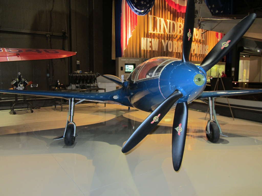 Bugatti Model 100